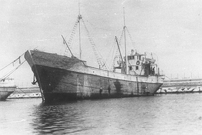 Immigration to Israel